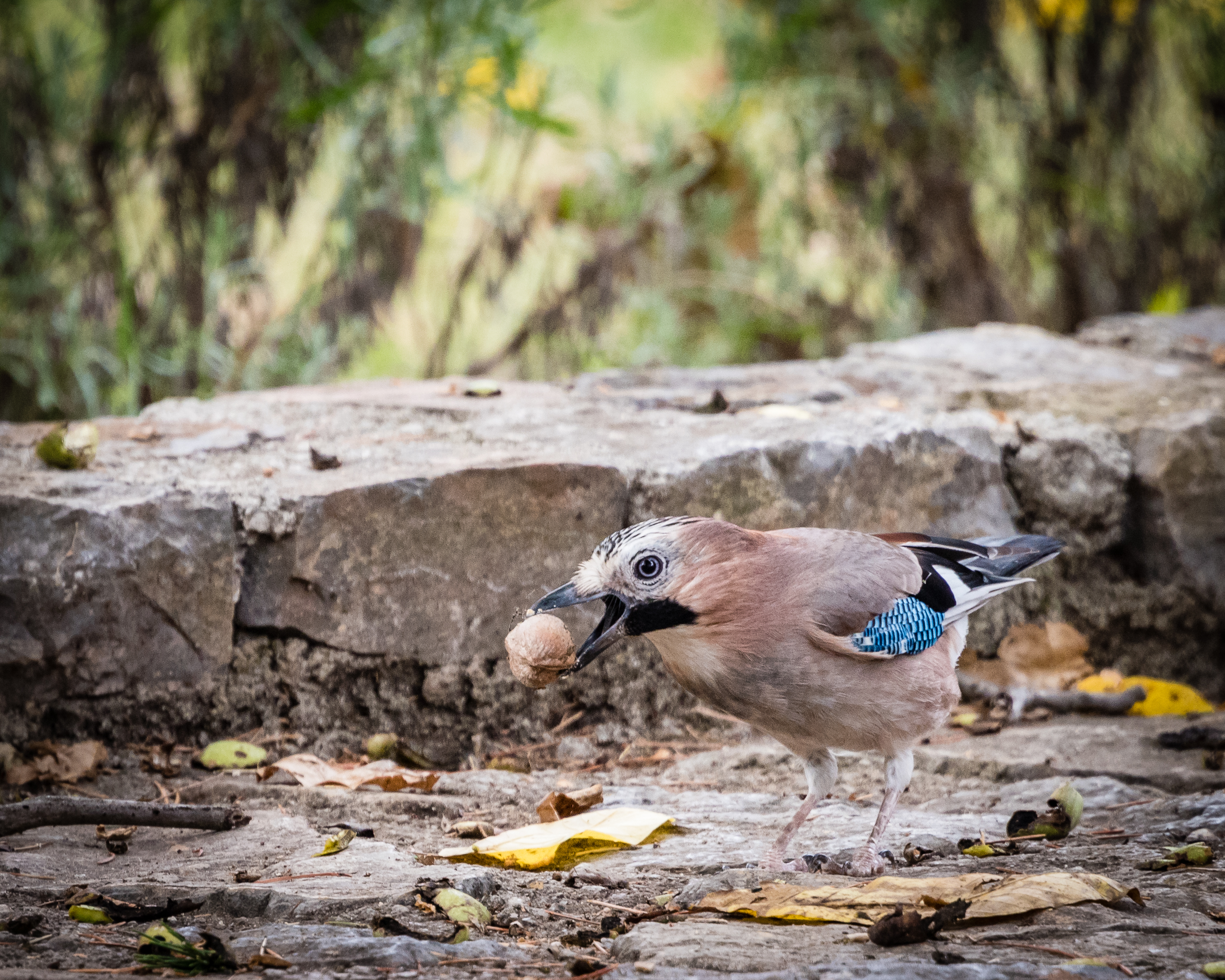 St. Naum Monastery, Lake Ohrid, Macedonia